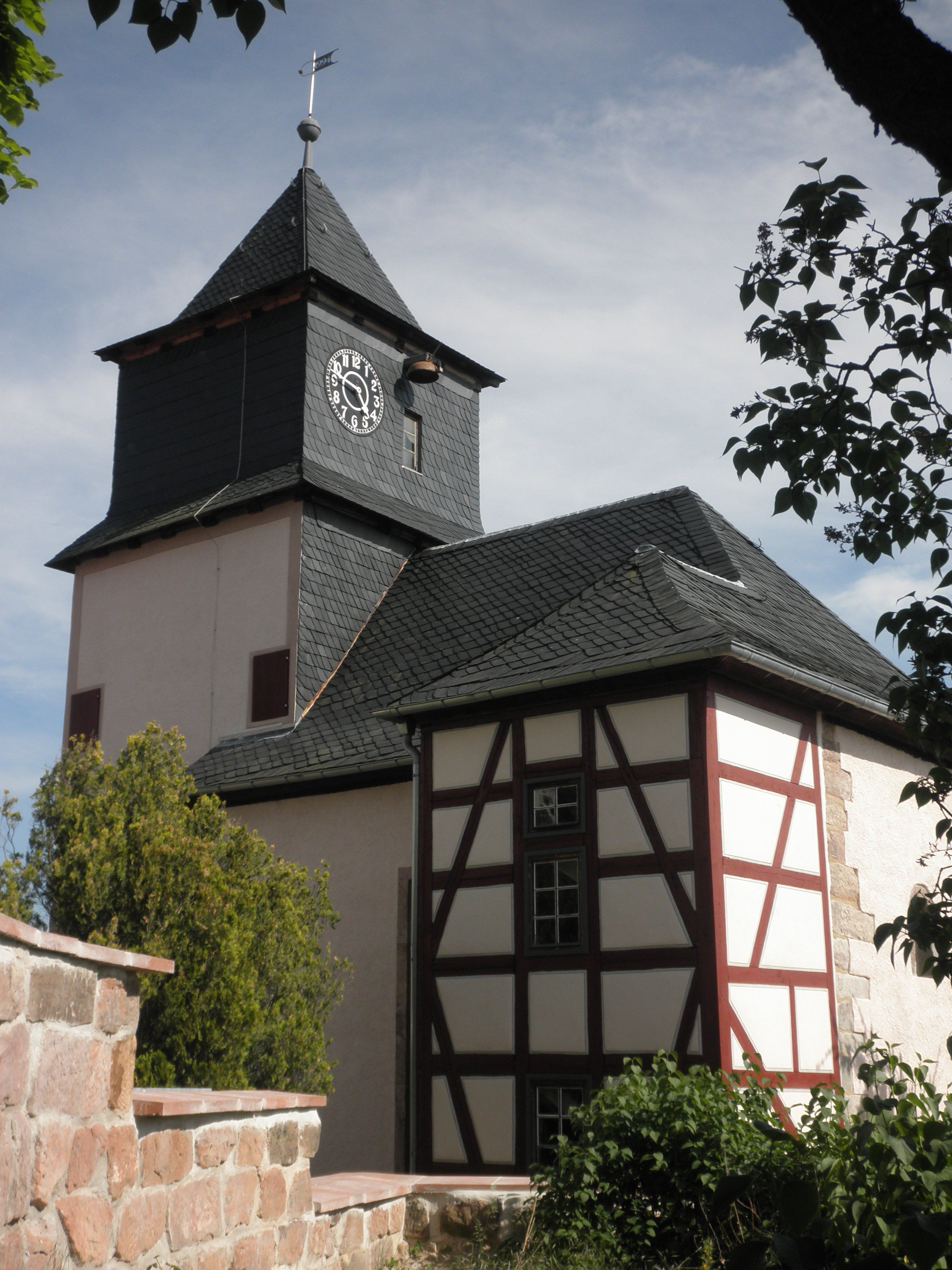 Church in Eichenberg (bei Jena) in Thuringia